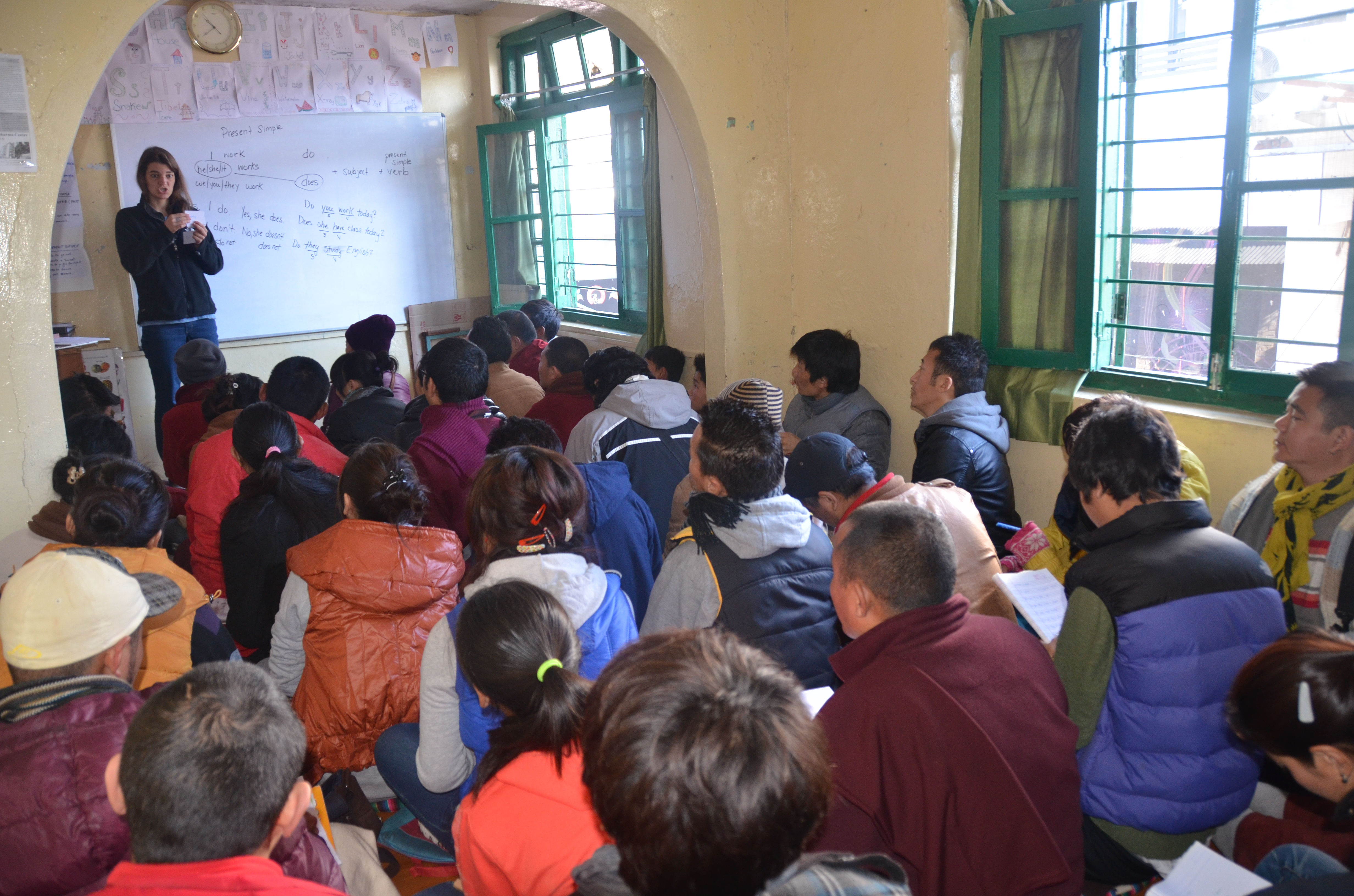 English Language Class taught by a volunteer at Lha